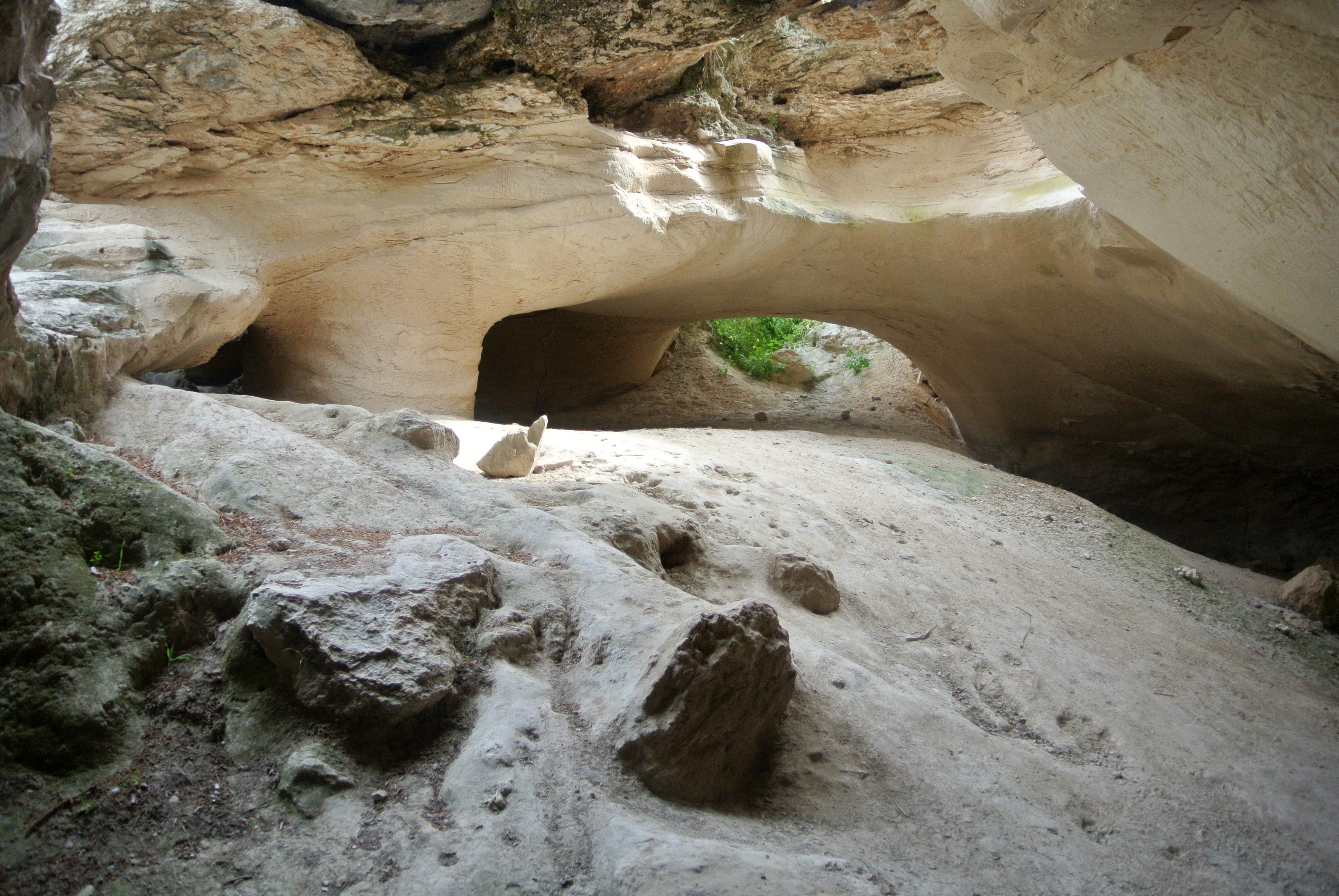 Cave under Tel Azeka, Israel.